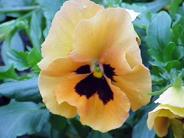 Species: Viola tricolor Family: Violaceae Image No. 1